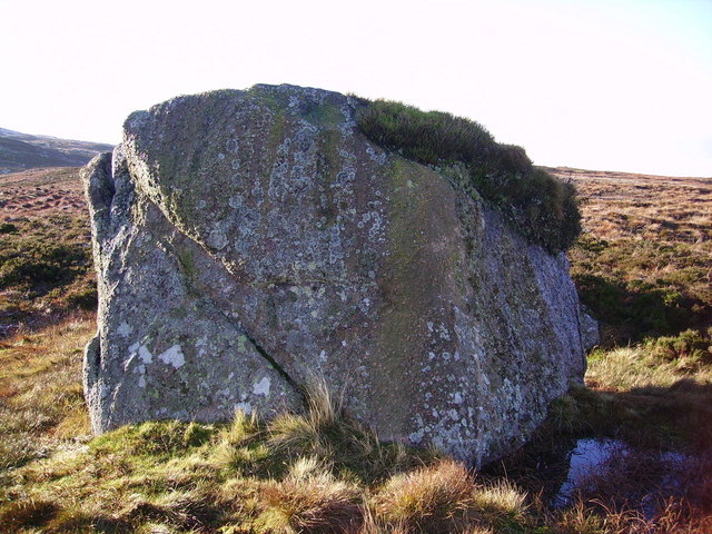 Gray Bull In the early 70's it had a small tree growing out of the top